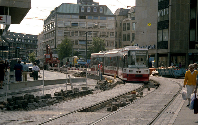 Tram on Route 5 in Bremen